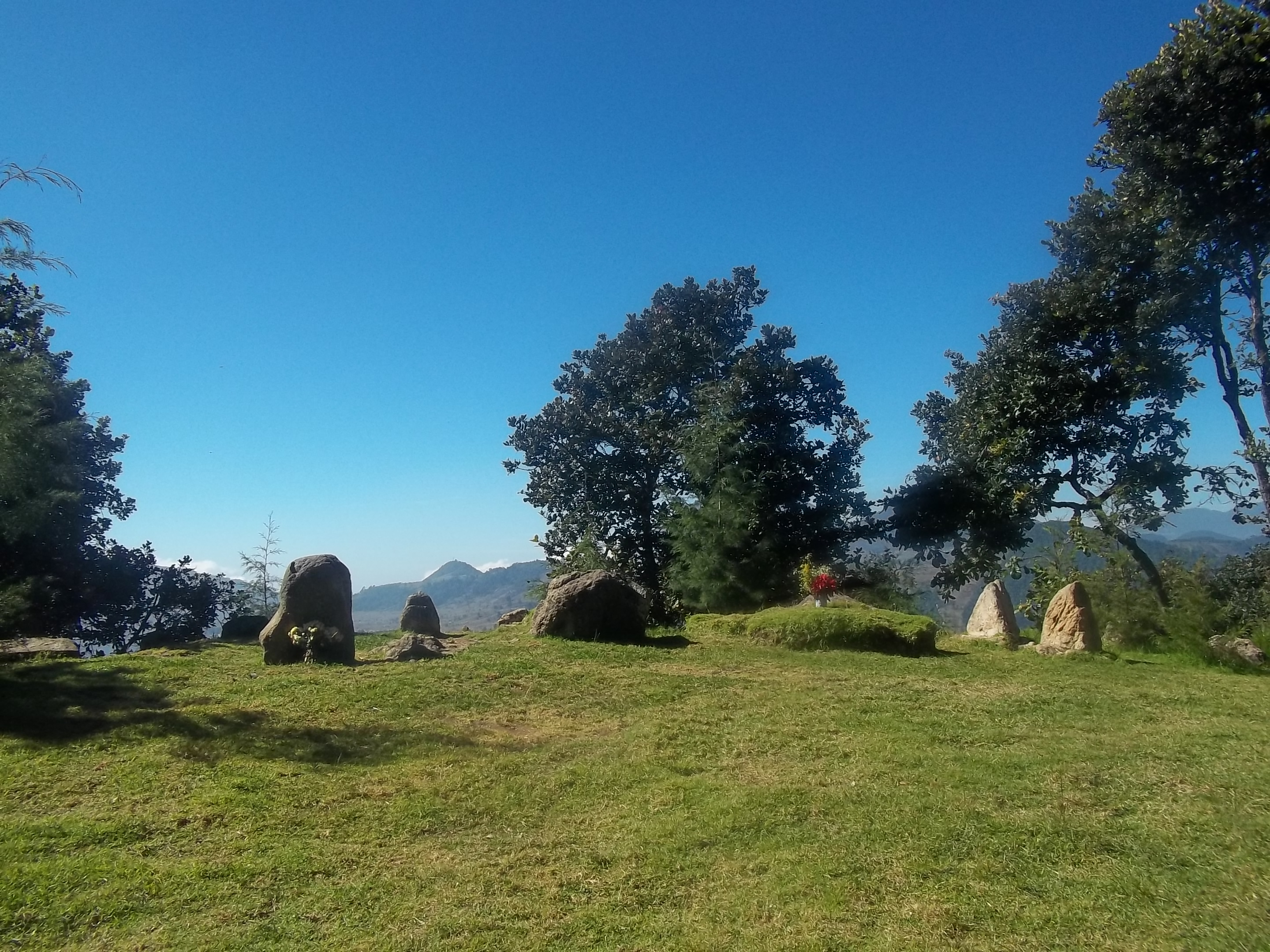 K'iaqbal, Cantel, Quetzaltenango, Guatemala. Maya ritual site with a couple of pre-Columbian scultpures.